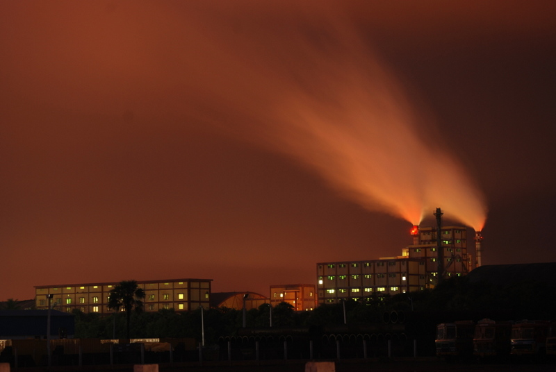 Murugappa